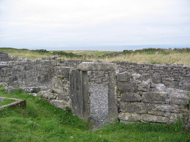 Na Seacht Teampaill (The Seven Churches), Inis Mór. One of the outbuildings of a monastic settlement built between the 9th and the 15th centuries. The main church is dedicated to the founding saint, Brecan